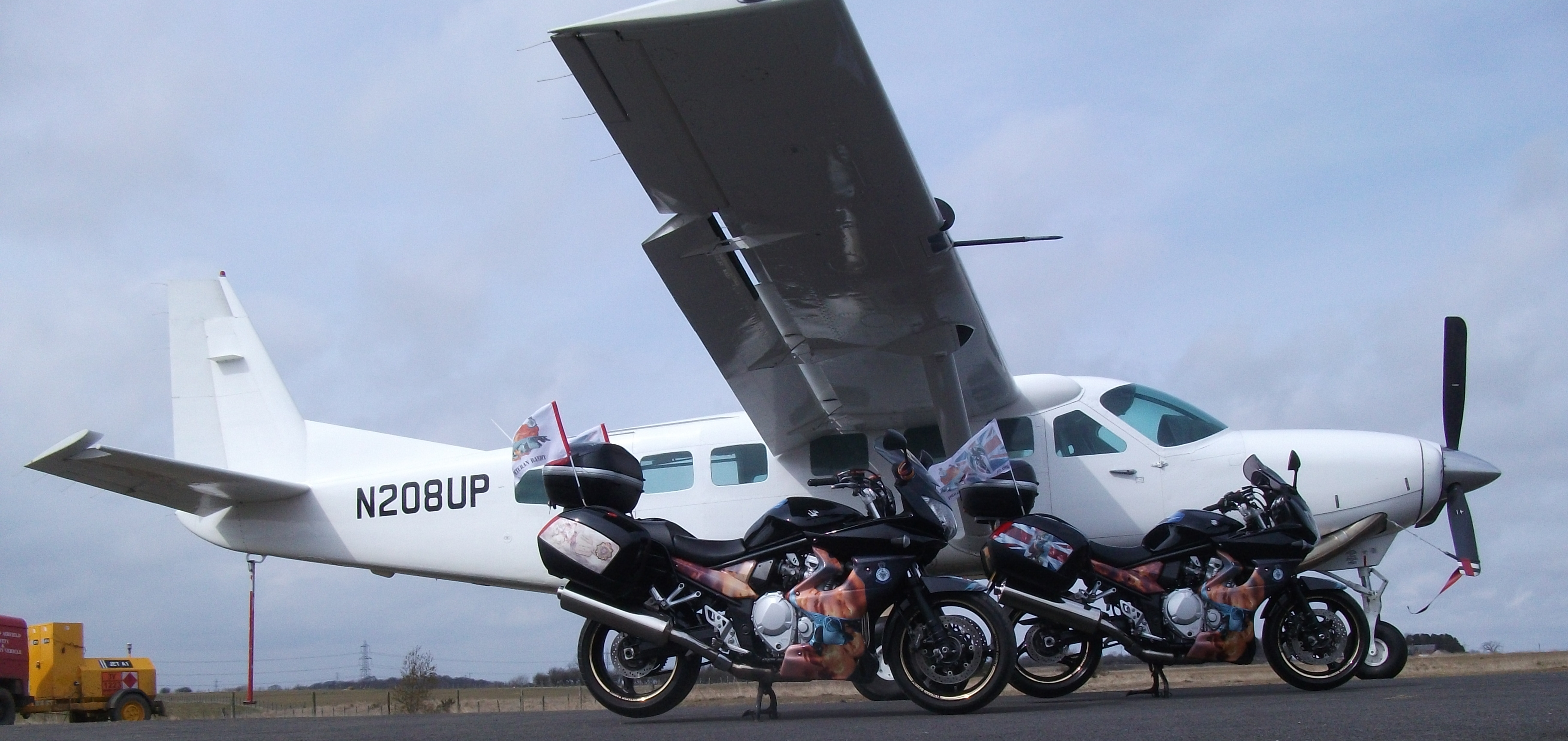 Taken as a promotional picture for the Royal Air Force Association 70th Anniversary Charity Skydive at Shotton Skydive Academy, Shotton Airfield in County Durham